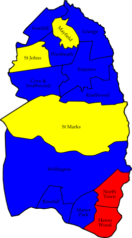 A map of the results of the 2006 Rushmoor Council election. Colour legend by wards won: Liberal Democrats Conservative party Labour party